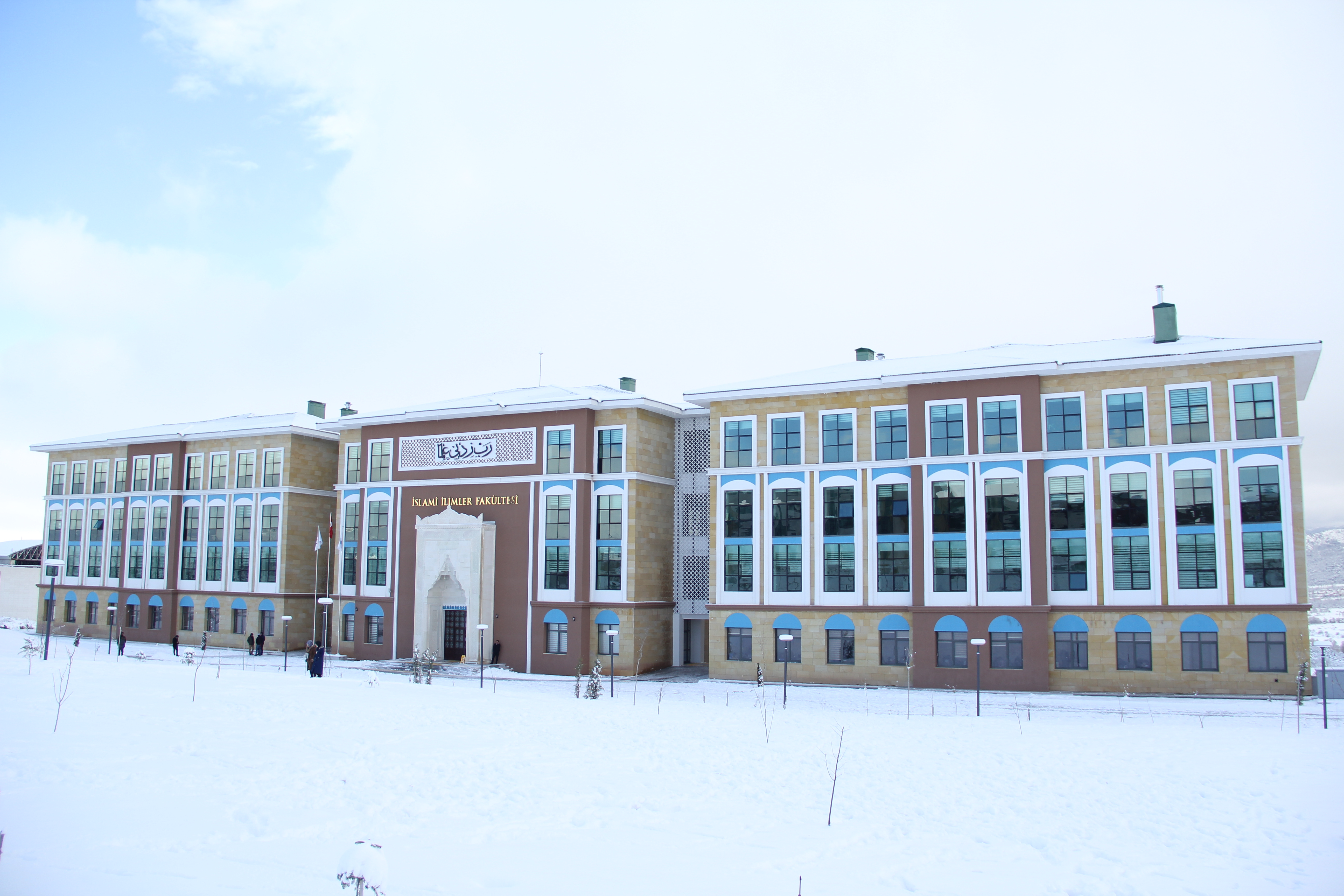 Kütahya Dumlupınar Üniversitesi Faculty of Islamic Sciences